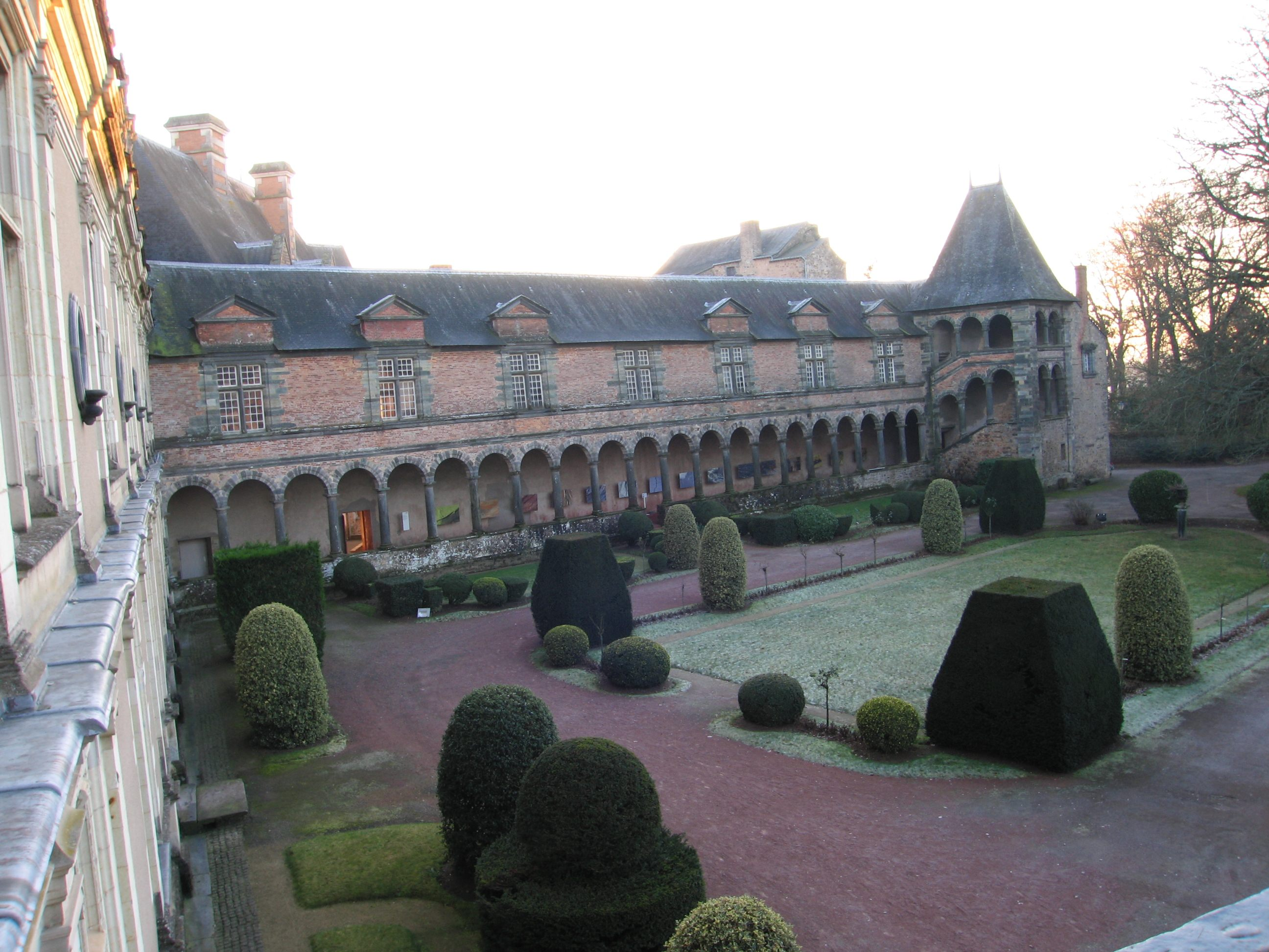 Galerie renaissance du château de Châteaubriant This edifice is indexed in the base Mérimée, a database of the French architectural patrimony maintained by the French Ministry of Culture, under the reference PA00108582.